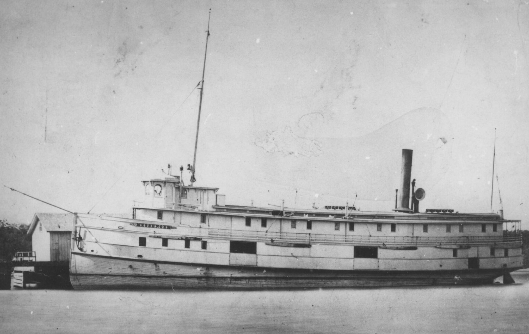 The steamer Messenger before she sank